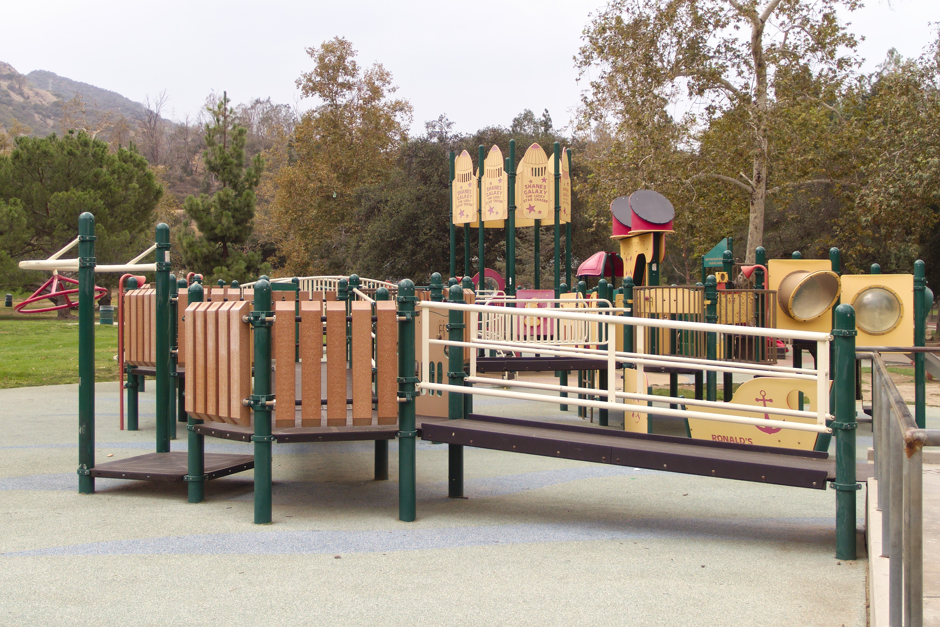 Rocket-themed playground equipment at Shane's Inspiration, Griffith Park.